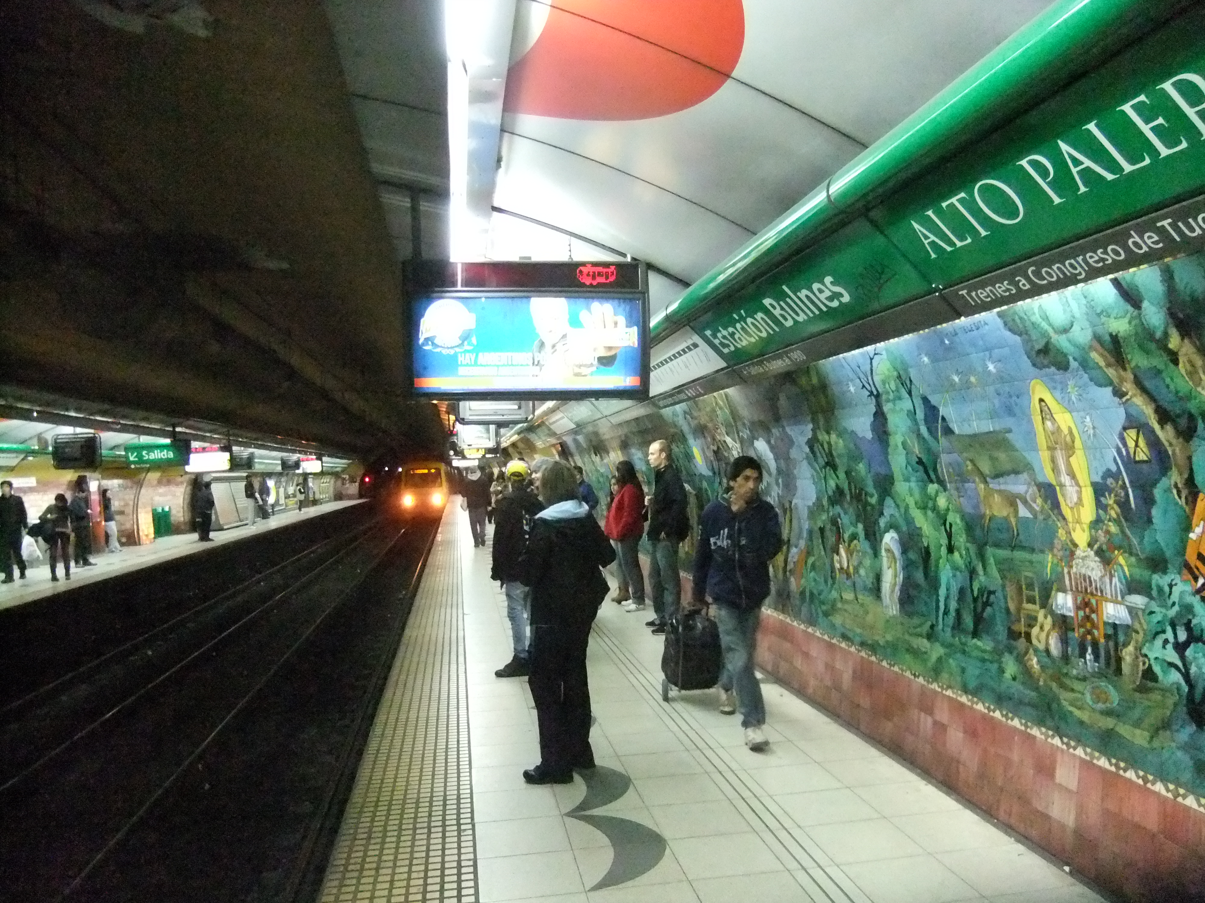 Bulnes Station. Buenos Aires Metro (Subte)